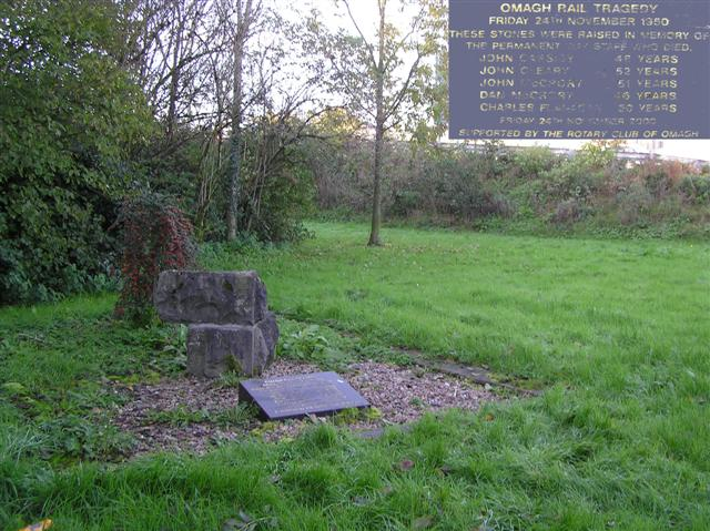 Omagh Rail Tragedy Memorial, Omagh. The inscription, located at the Dromore Road, reads "Omagh Rail Tragedy Friday 24th November 1950 These stones were raised in memory of the permanent way staff who died. John Cassidy 48 years John Cleary 52 years John McCrory 51 years Dan McCrory 48 years Charles Flanagan 50 years Friday 24th November 2006 Supported by the Rotary Club of Omagh". Unfortunately Omagh Railway station does not exist any more, it is now the Great Northern Business complex, in which one of the first units was occupied by Homebase. 336543